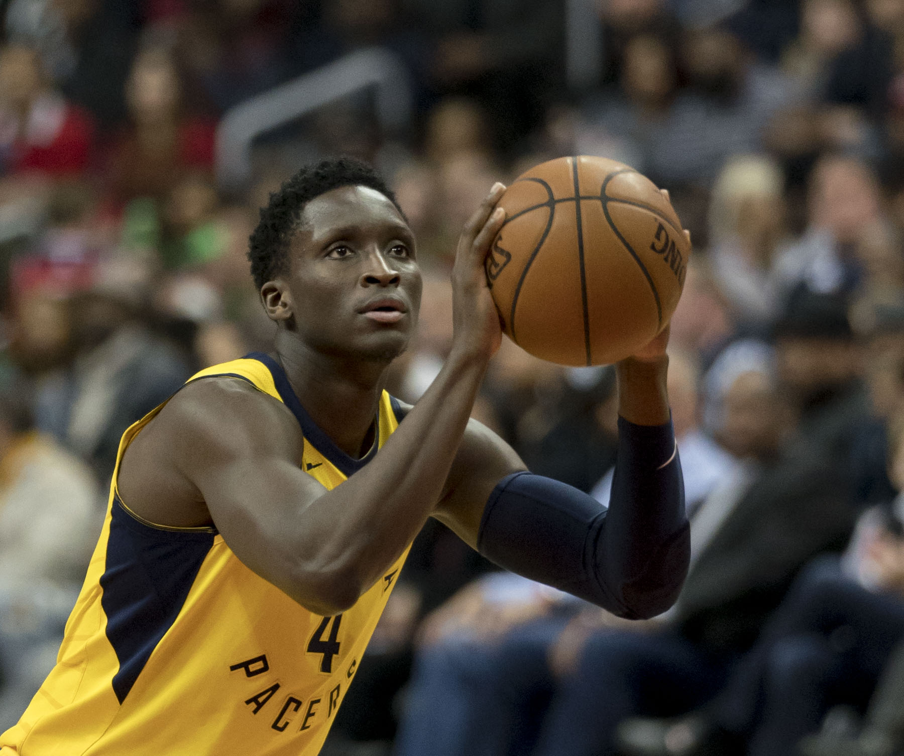 Pacers at Wizards 3/17/18